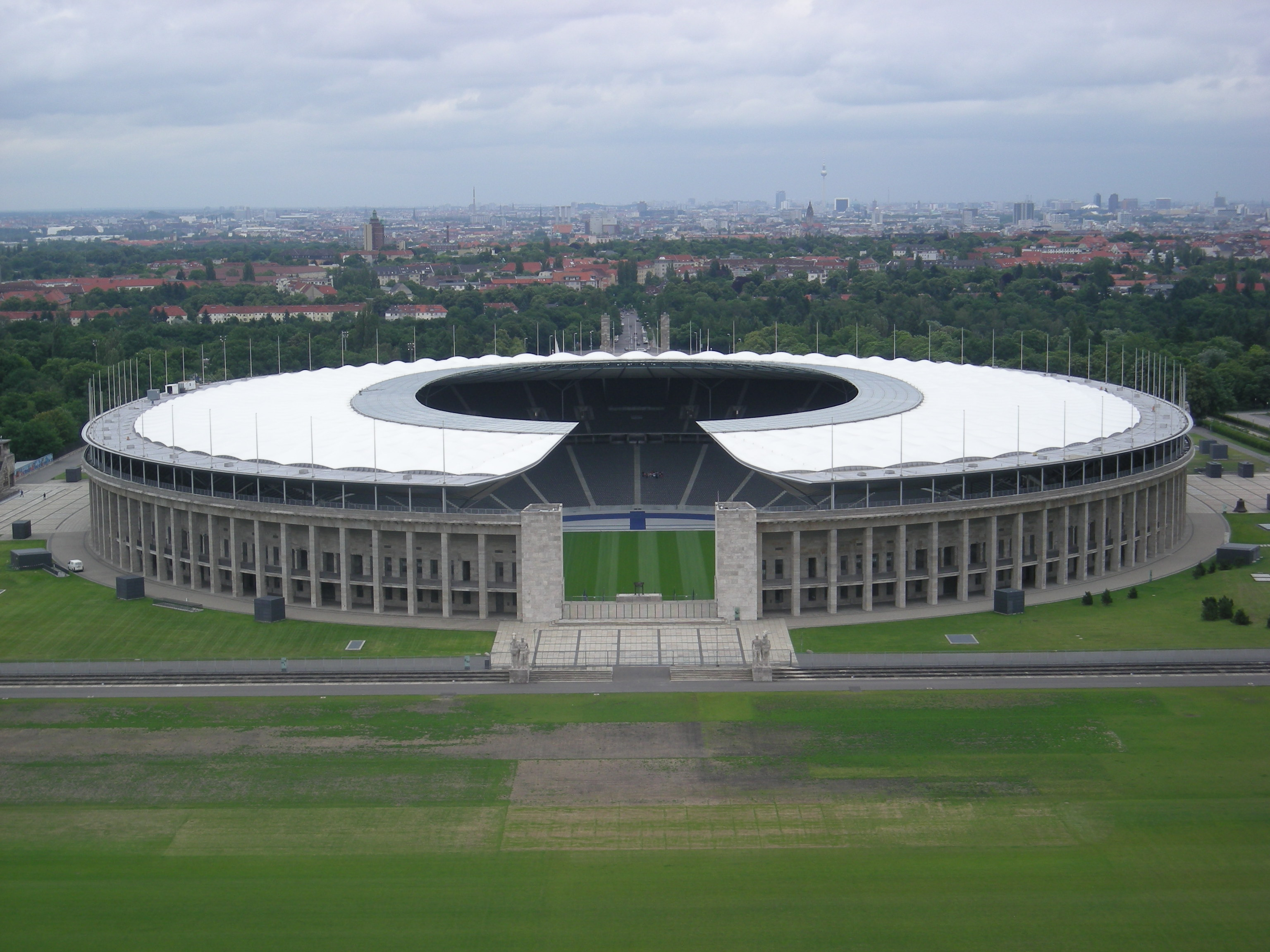 View of the stadium from the Belltower at the Olympiastadion in Berlin (Germany).